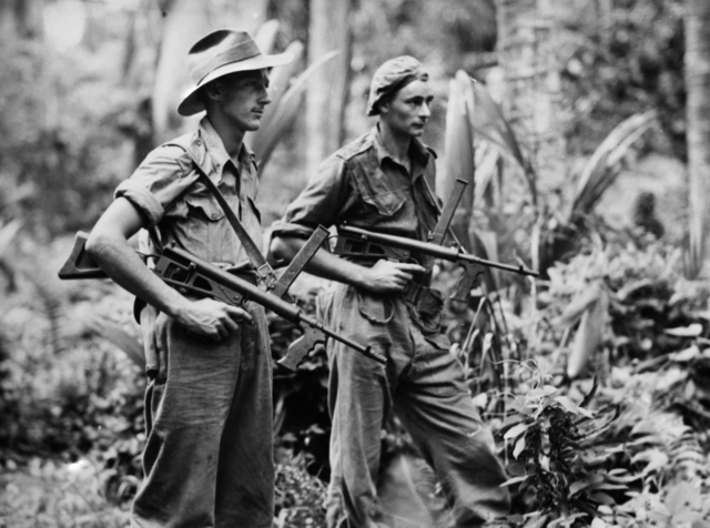 AWM Caption: New Britain. 4 April 1945. Private Leon Ravet of Parramatta, NSW (left), and Pte Bernard Kentwell of Cronulla, NSW, on the alert while on patrol duty with their Owen sub machine guns. Both men served with the 19th Battalion (South Sydney Regiment)[1][2]